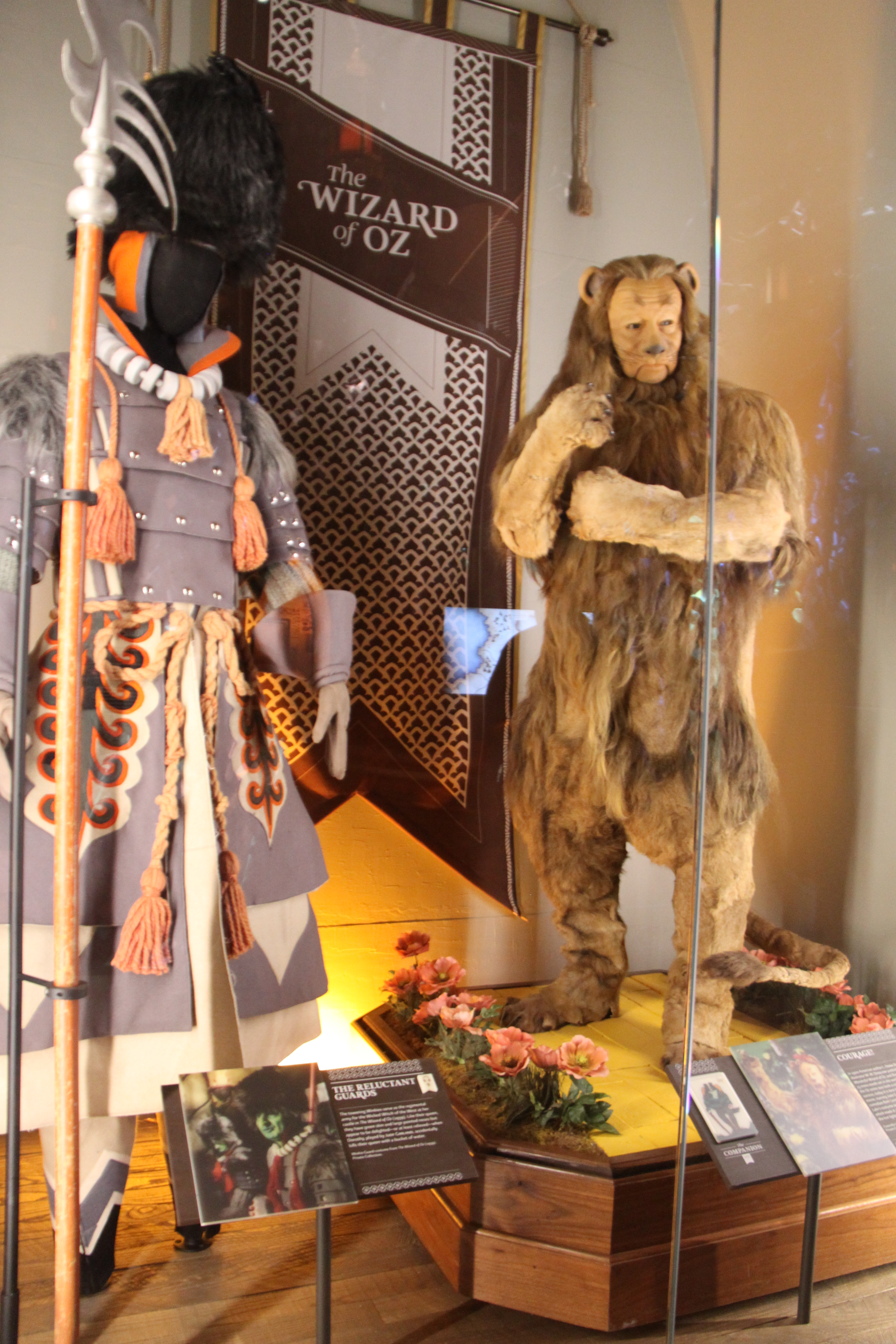 Winkie Guard and Cowardly Lion costumes from the 1939 film The Wizard of Oz displayed at Fantasy: Worlds of Myth and Magic, Experience Music Project/Science Fiction Hall of Fame, Seattle.